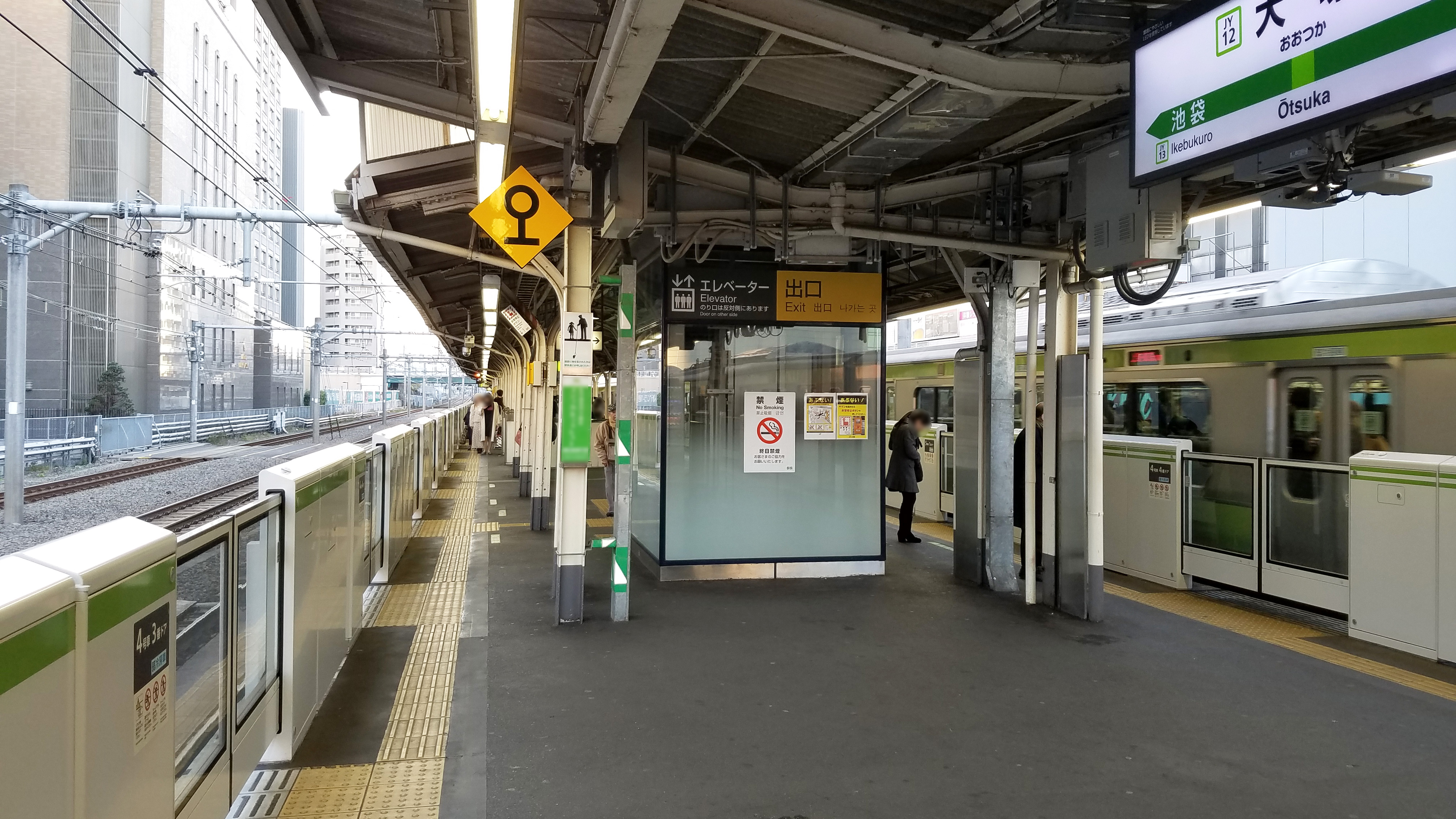 The platform at Ōtsuka Station on the Yamanote Line in Toshima city, Tokyo, Japan